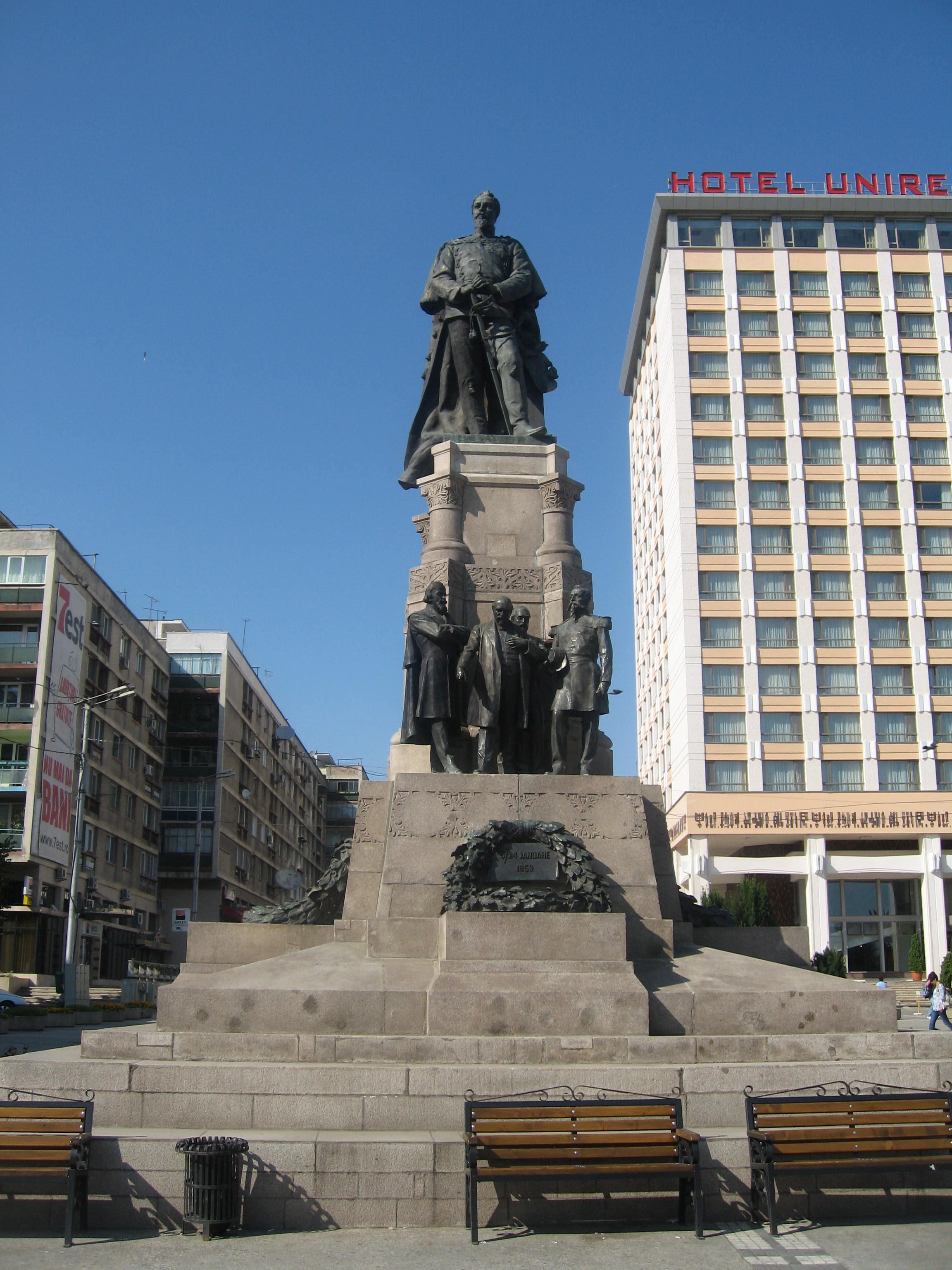 Statuia lui Alexandru Ioan Cuza din Iaşi